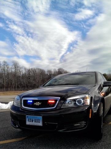 Connecticut State Police car. Unmarked Chevy Caprice